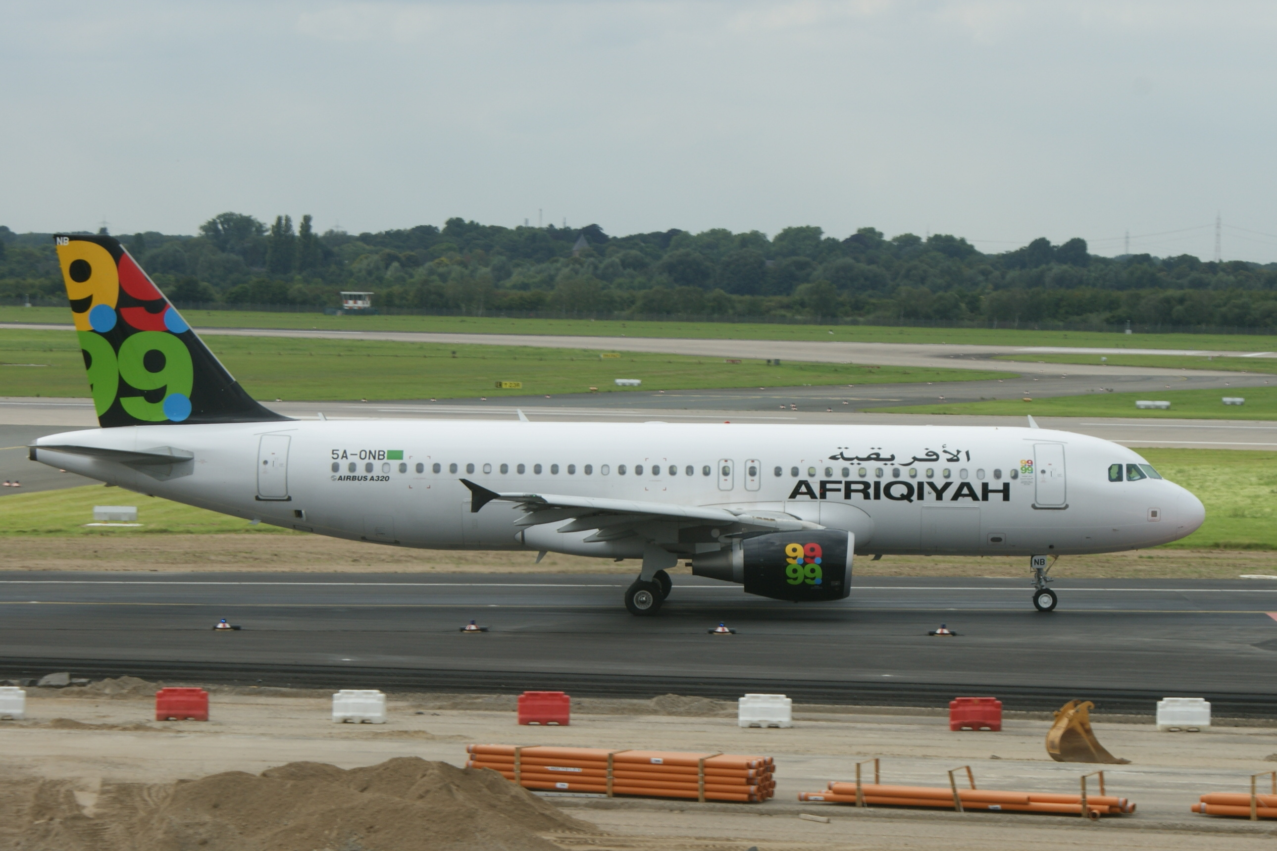 Airbus A320-214 (reg. 5A-ONB) of Afriqiyah Airways seen in Duesseldorf (EDDL/DUS) in September 2008. The picture was taken from the train station's viewing platform.